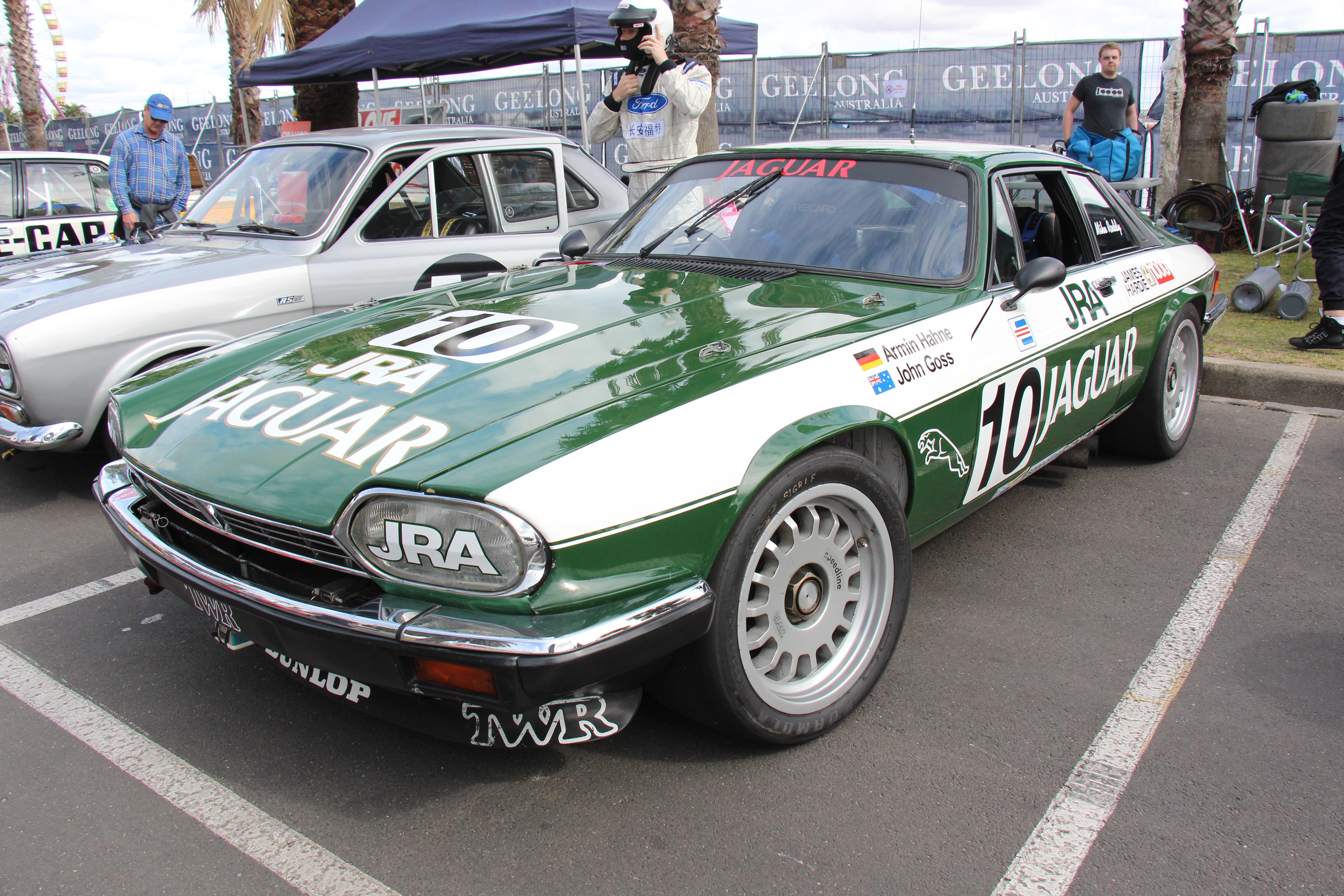 The XJ-S replaced the E-type and was based on the XJ Saloon. It was built from 1975-96 with a facelift in 1991. It was a competent grand tourer, and more aerodynamic than the E-Type. From 1982 it was known as the XJS HE (HE for High Efficiency engine, more economical) A 3.6 6 cyl version was available from 1983 and a convertible from 1988. With the 1991 facelift, side windows appeared larger, the 6 was increased to 4.0 and the V12 to 6.0. Engine; 5.3 litre V12 In 1985, 3 XJ-Ss competed in the James Hardie 1000 race at Bathurst, Australia Tom Walkinshaw put his on pole position, racing with Win Percy, finishing the race in 3rd position. Local man John Goss and Armin Hahne won the race in this car. The third car driven by Garry Willmington and Peter Janson finished 14th